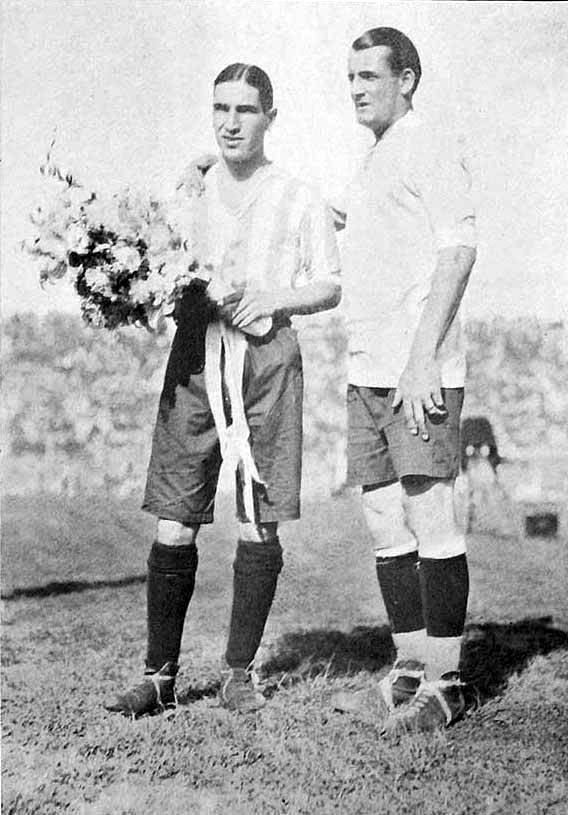 Argentina and Uruguay captains at the 1929 Campeonato Sudamericano. Manuel Ferreira (Argentina) and José Nasazzi (Uruguay).